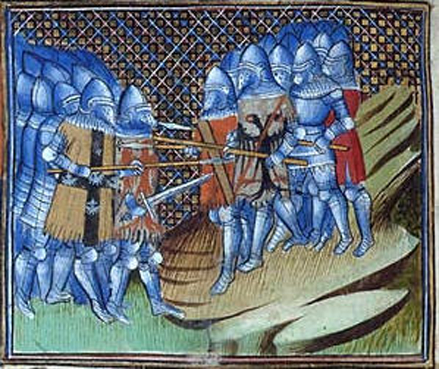 Battle of Cocherel 1364